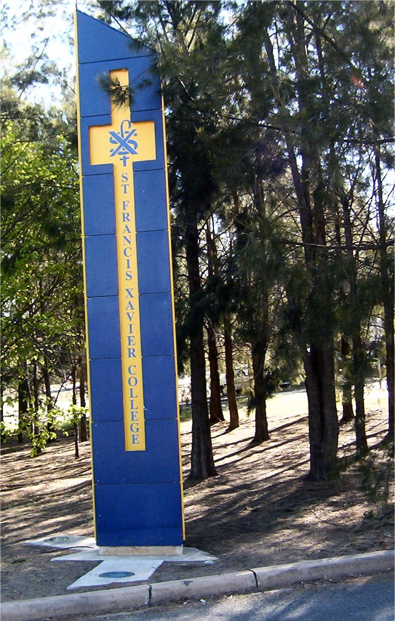 Category:Images of Canberra Summary Description: A picture taken of a school, Saint Francis Xavier College. Source: Own work Date Taken: November 18th 2006 Author: Dfrg.msc Uploader: Dfrg.msc Permission: Given (see Below) Use it. Don't abuse it.